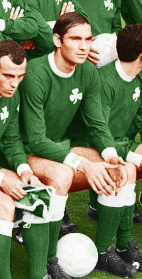 Antonis Antoniadis, Panathinaikos - Ajax, Wembley, 1971